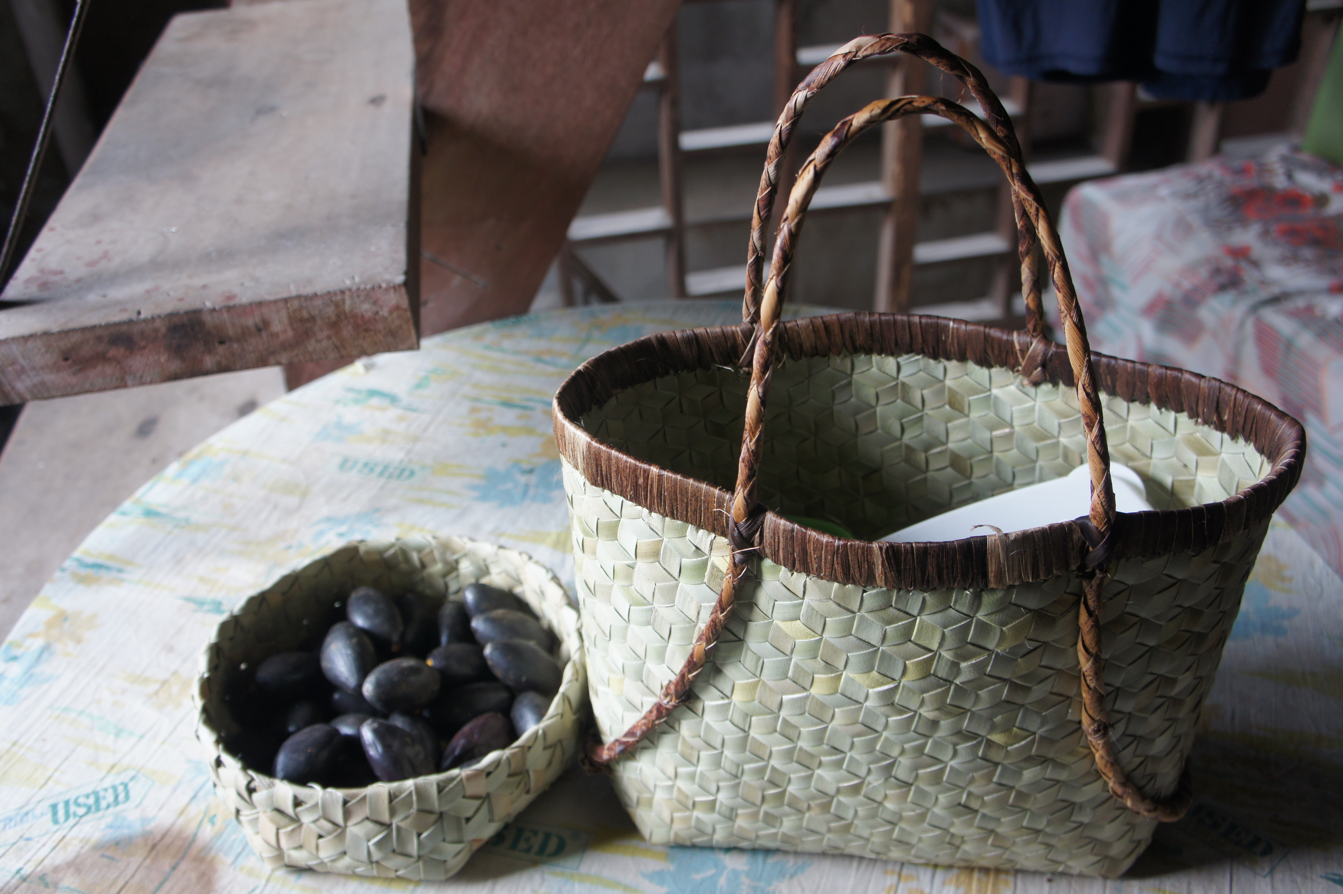 Karagumoy strips make a practical basket in kinab-anan weave accented with palacpac, the outer stem of the abaca plant dried naturally right on the trunk. (Bulusan, Sorsogon, Philippines)